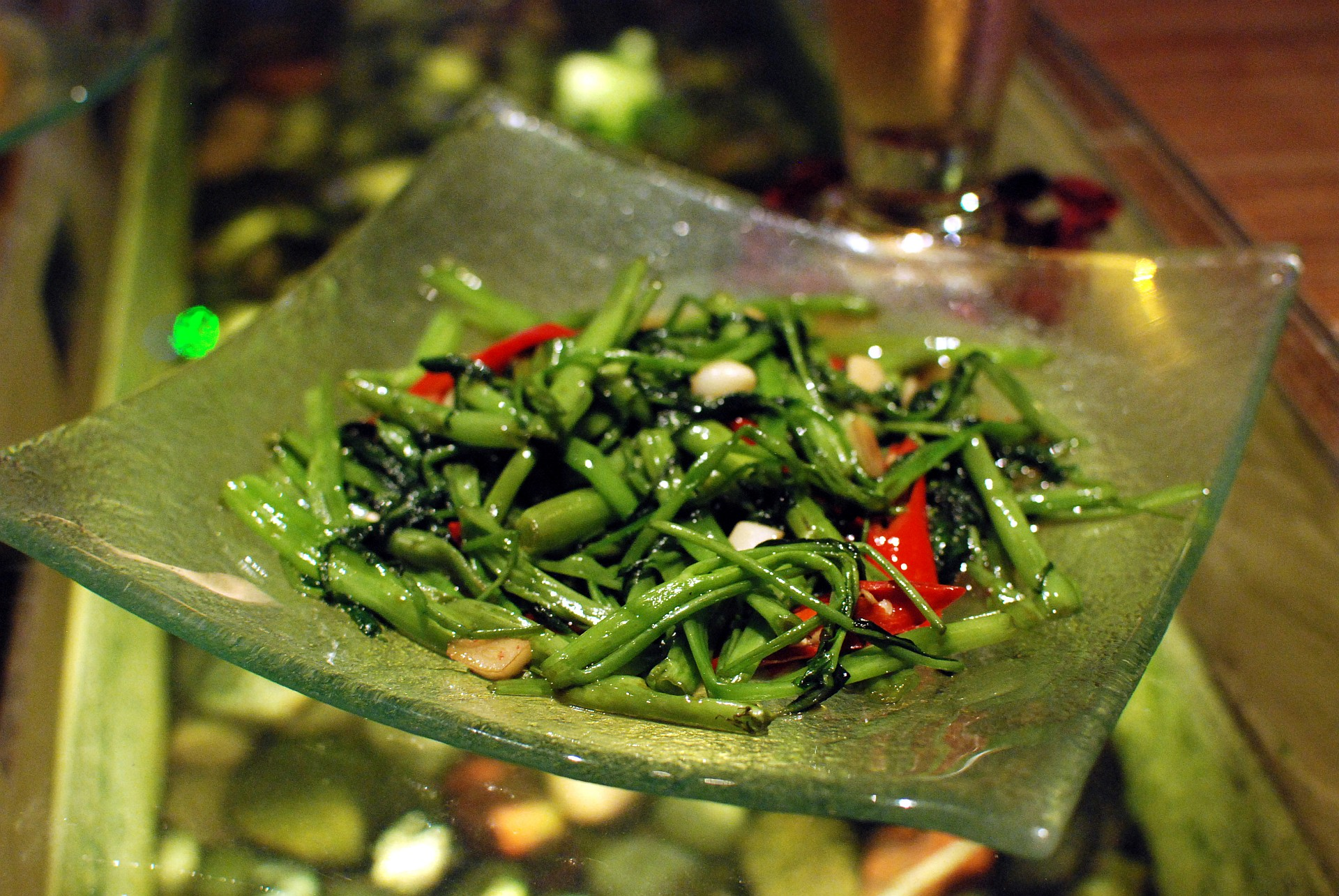 (Phat) phak boong fai daeng (Thai: ผัดผักบุ้งไฟแดง): Literally it means "(fried) red fire morning-glory". The basic recipe is morning-glory (Ipomoea aquatica) stir-fried with garlic, chillies, Thai yellow bean sauce (taochiao), oyster sauce and fish sauce. For the correct taste, one needs to get the cooking flames in to the pan. This vegetable dish is extremely popular in Thailand.